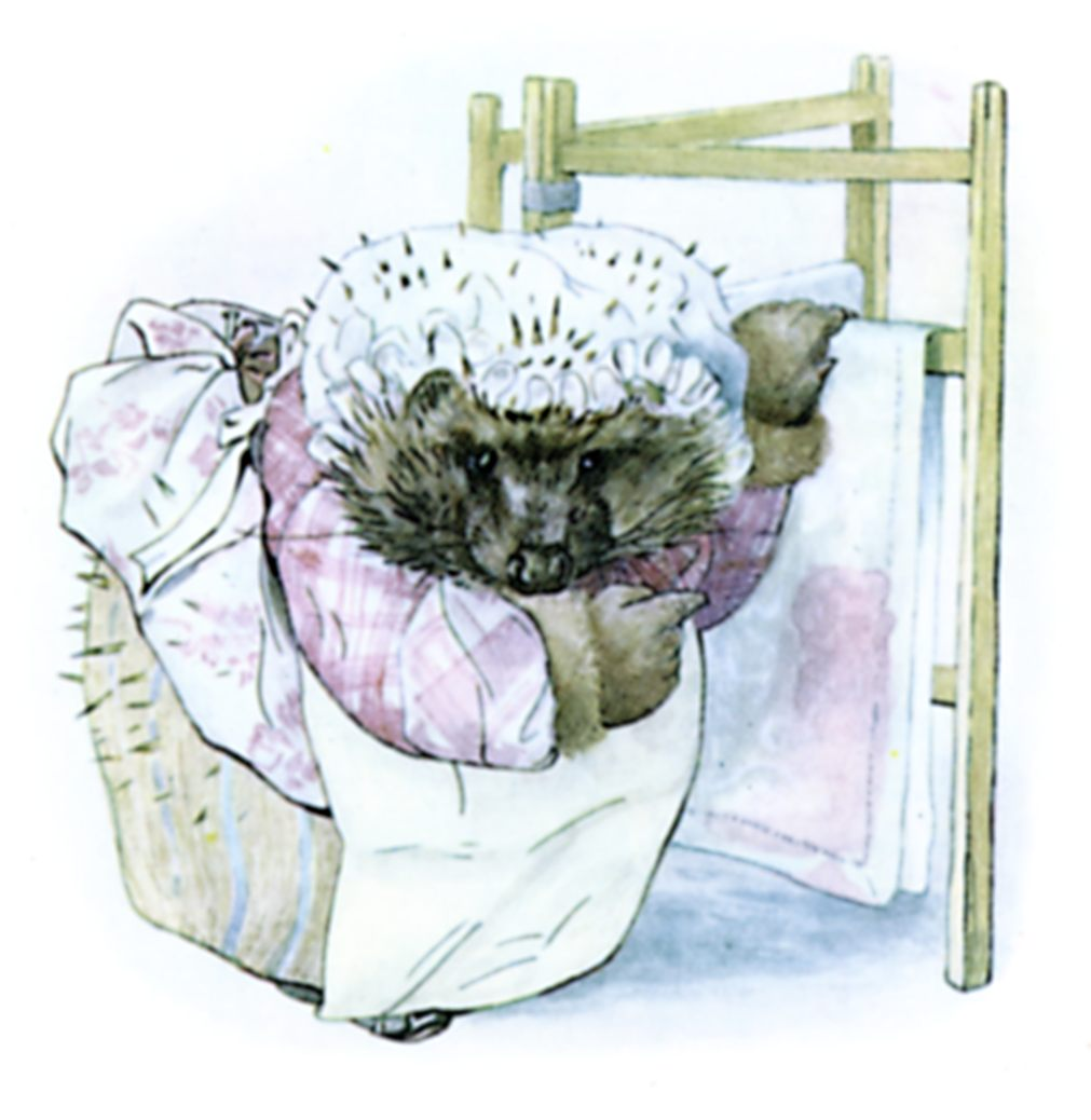 Frontispiece showing Mrs. Tiggy-Winkle and her iron, from The Tale of Mrs. Tiggy-Winkle